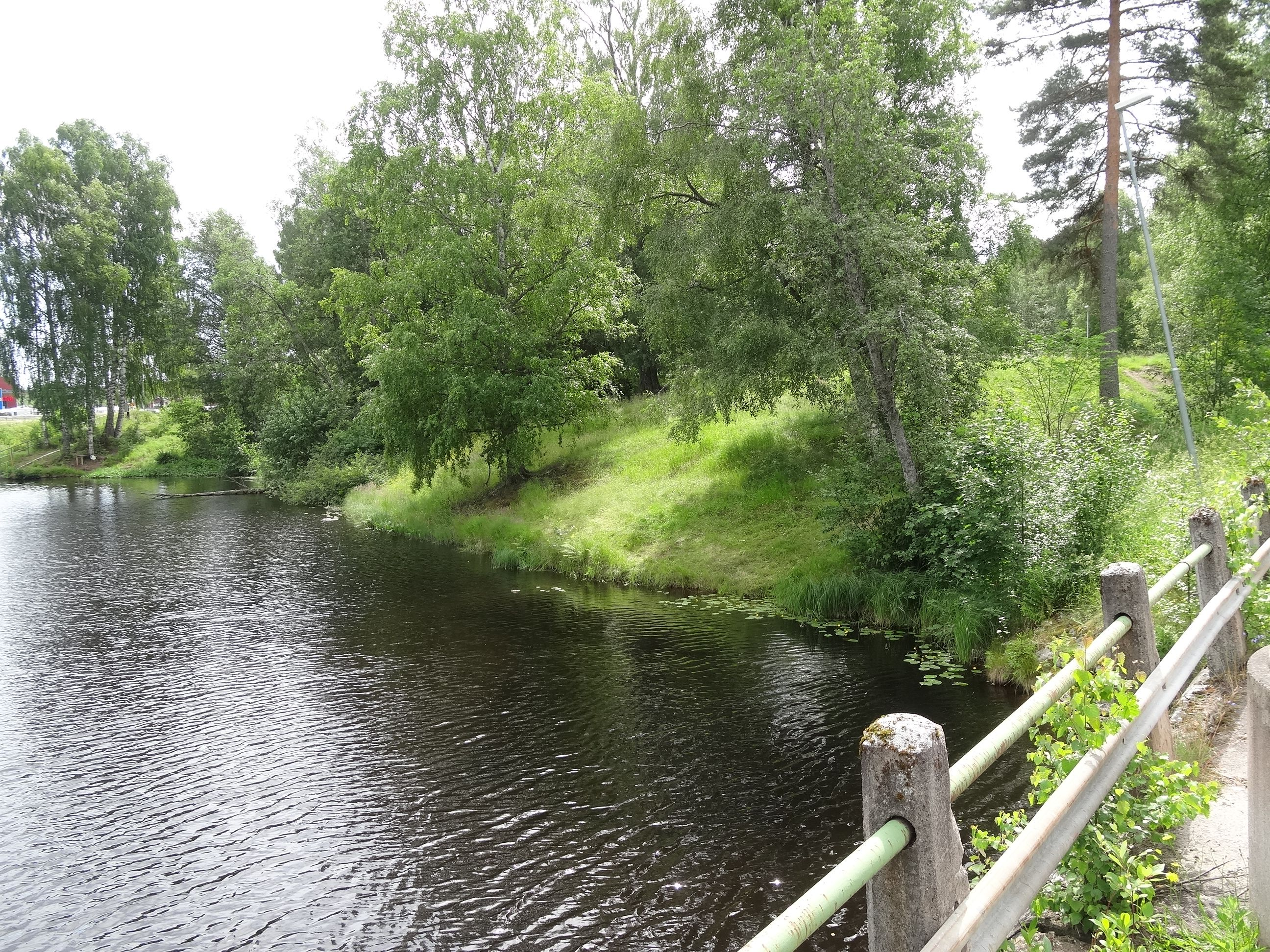 Defensive wall from Morast sconce, Charlottenberg Sweden.